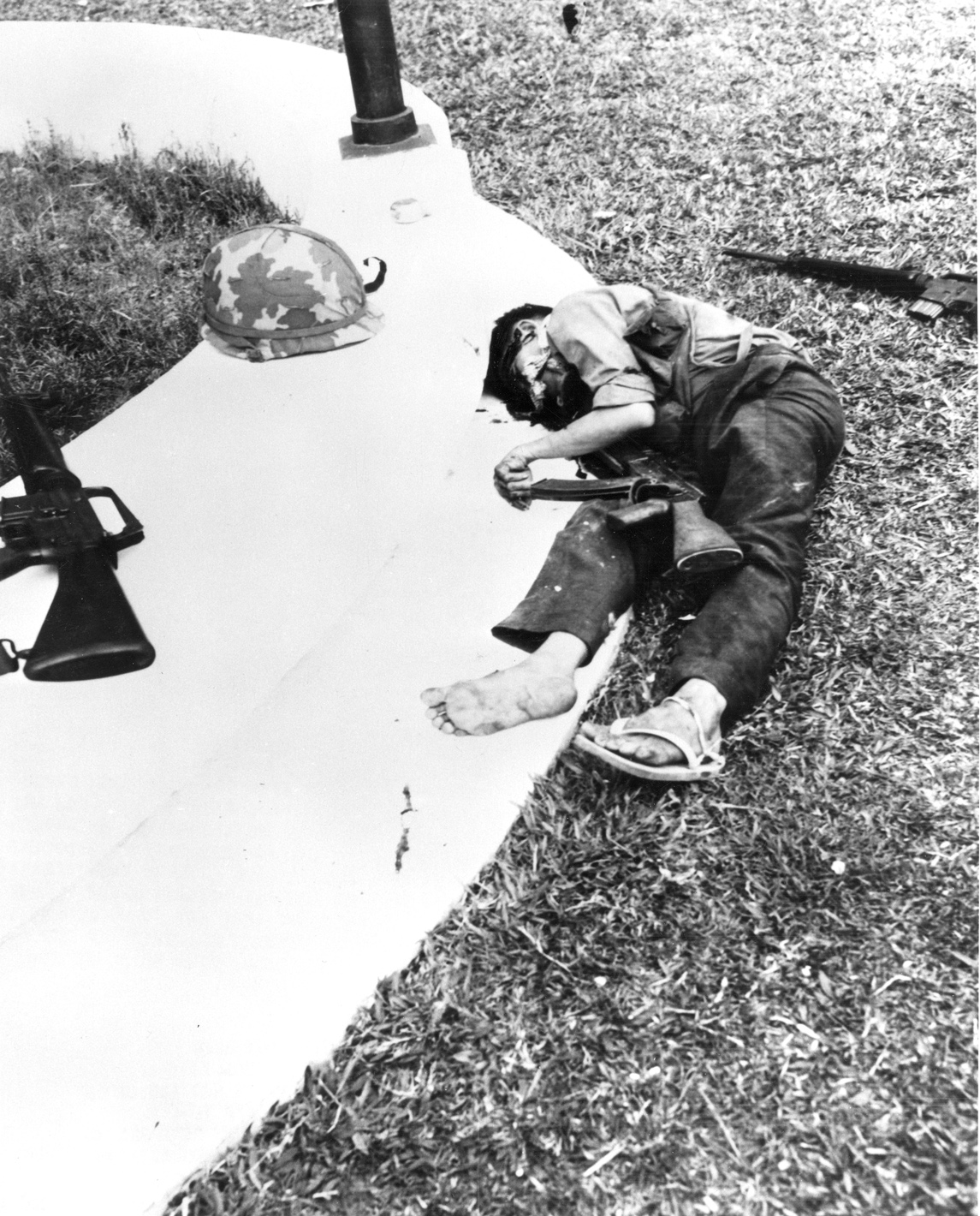 AVSG-S-1031-12/AGA68 RVN Saigon Two Viet Cong dead lay on the grounds on the U.S. Embassy in Saigon